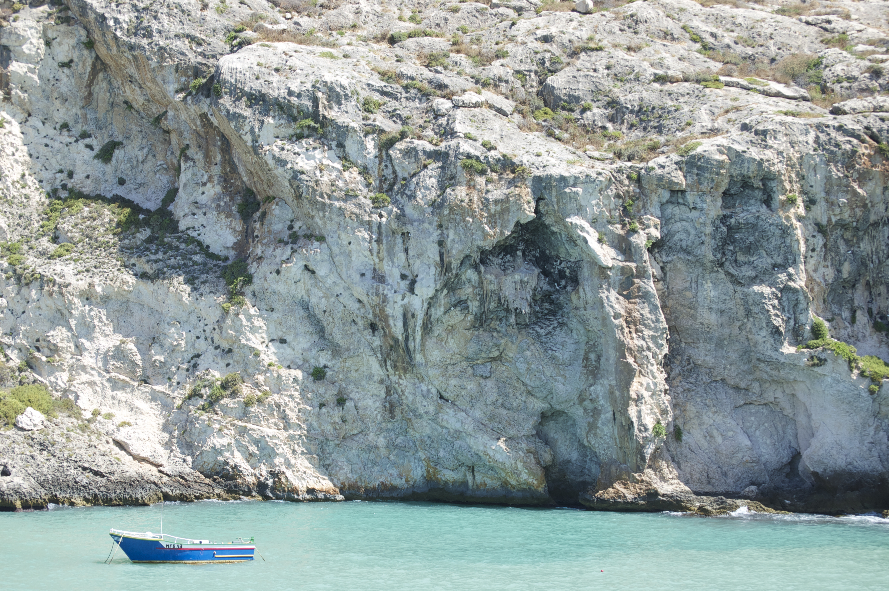 Xlendi is a village in Malta situated in the south west of the island of Gozo.